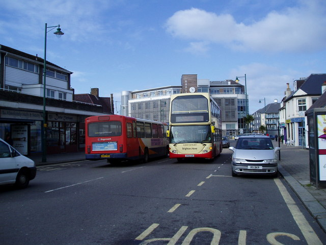 High Street, (A259) The new Ropetackle development can be glimpsed at behind the 11.20 Shoreham to Rottingdean No2 bus.